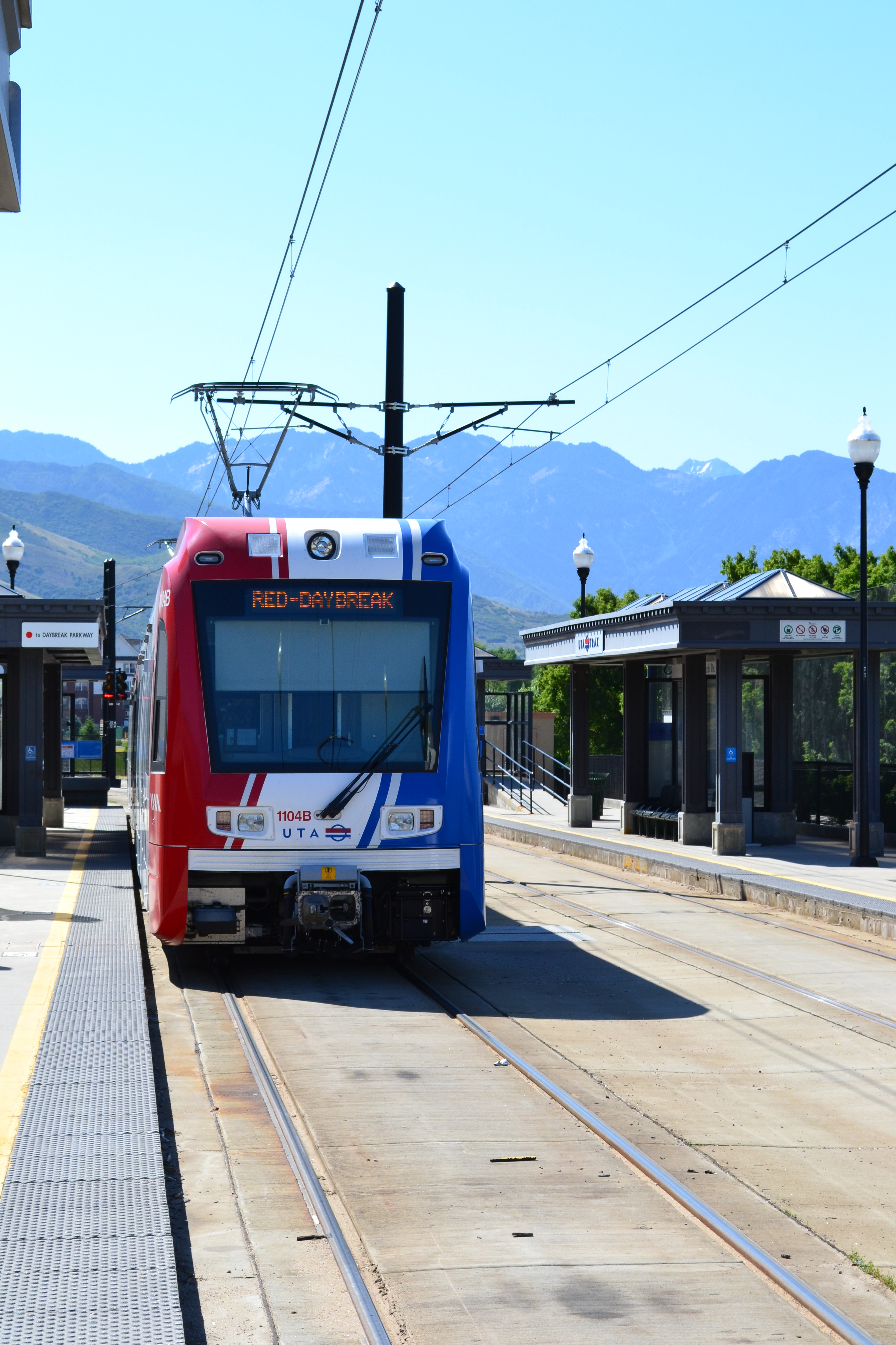 A Utah Transit Authority Trax light rail vehicle at the northern terminus of the red line in Salt Lake City. The LRV is a Siemens S70.